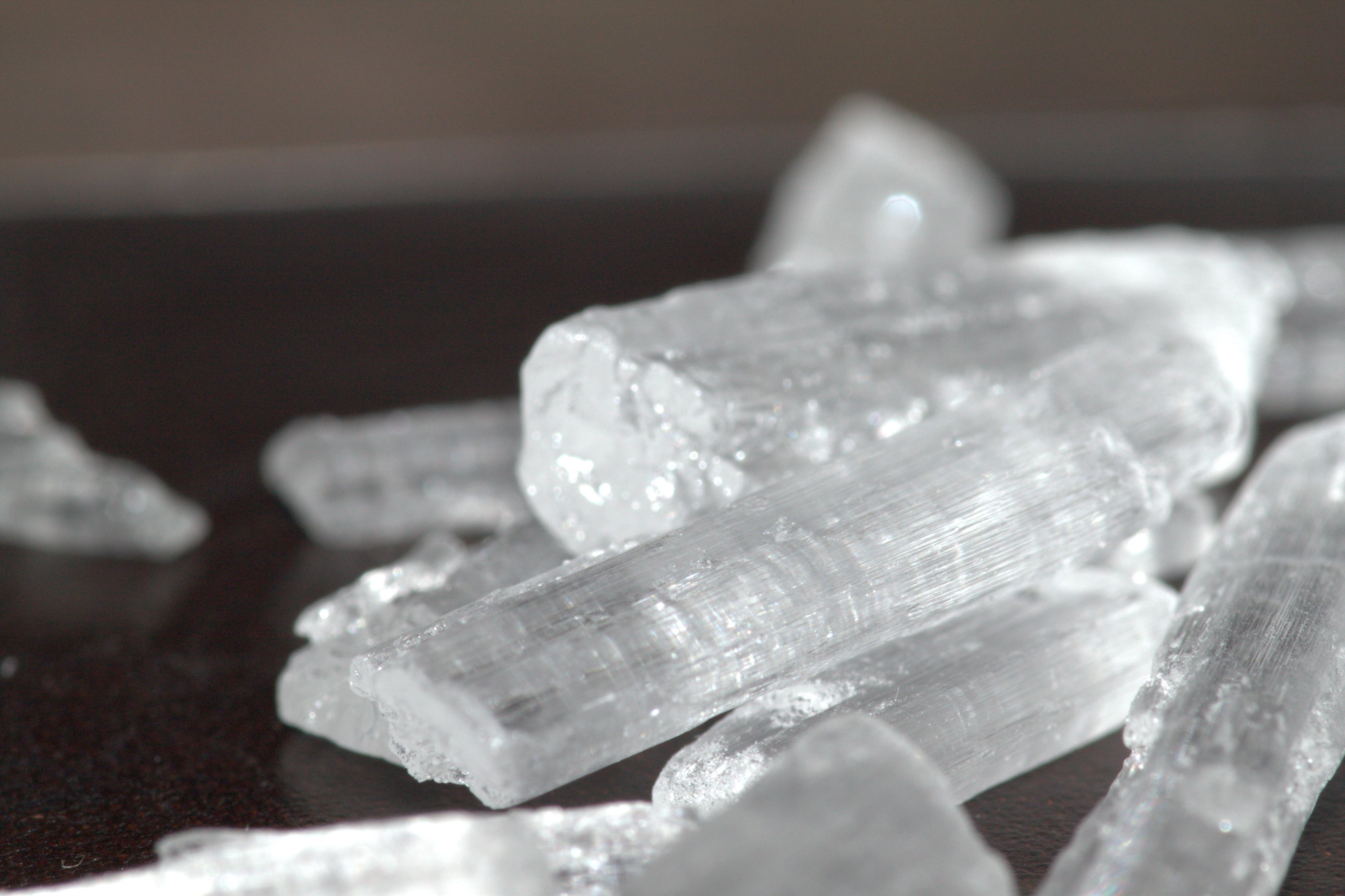 A Macro shot of pure Menthol Crystals. Taken by Jeffrey Phillips Freeman.